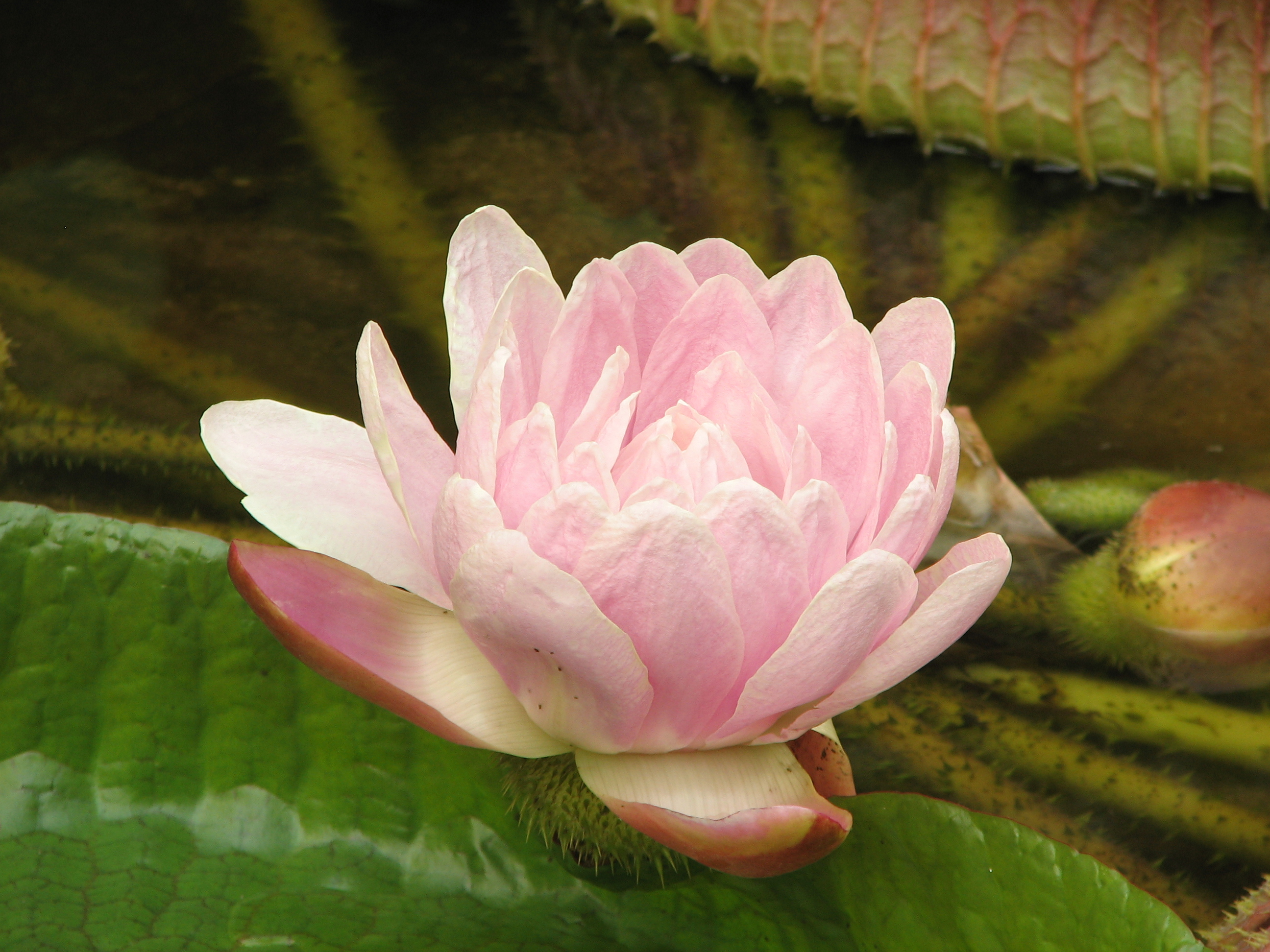 Blossom of Victoria (Waterlily, Victoria cruziana) - Botanical Garden of Masaryk University in Brno, Czech Republic